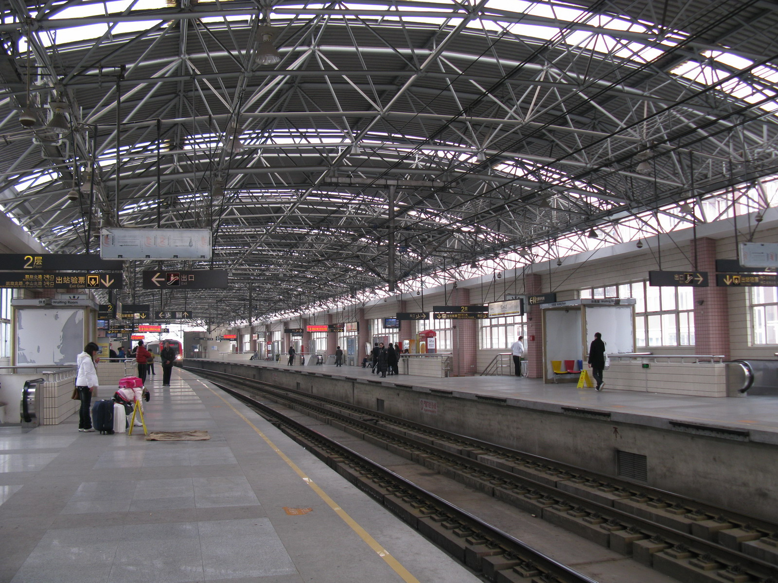 Line 3 & Line 4 Platform of Zhenping Road Station